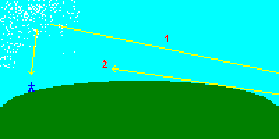 Explanation for Afterglow. Solar ray 1 is the lowest from the sun, so the sun is set. Solar ray 2 is reflected in the (snow) clouds to the observer (in blue).